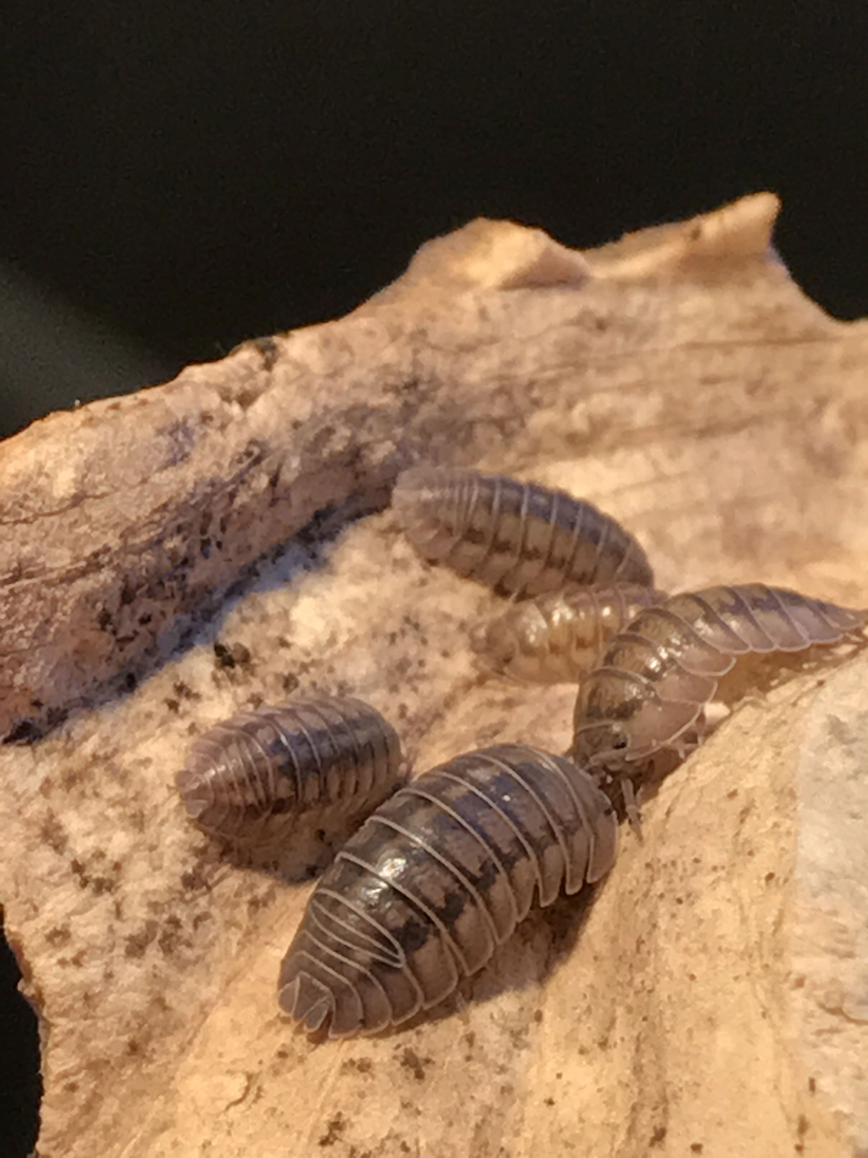 A. Nasatum. Adults, found in southeast U.S, gray in color like most wild specimens.